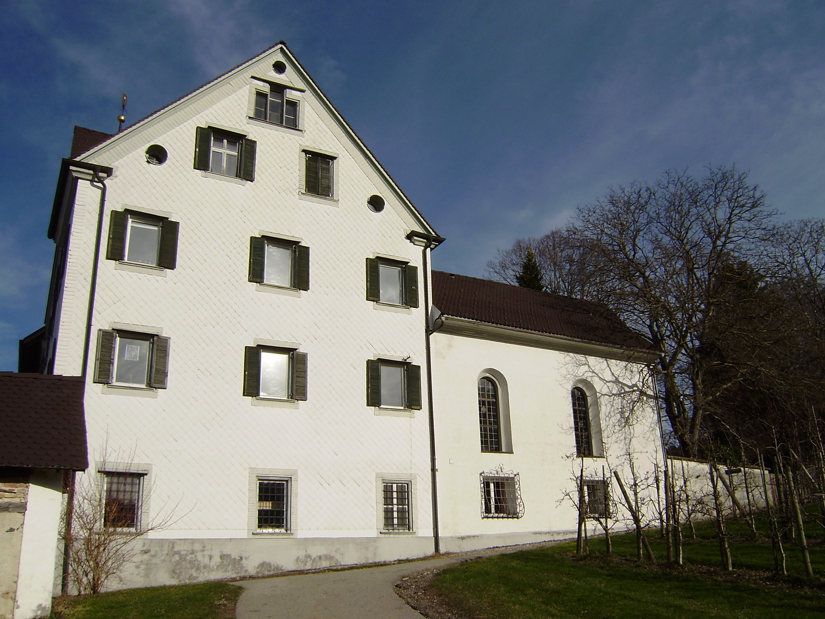 Zisterzienserinnenabtei Mariastern in Hohenweiler-Gwiggen, Vorarlberg, Austria, Schlossgebäude Gwiggen mit Loretokapelle von S